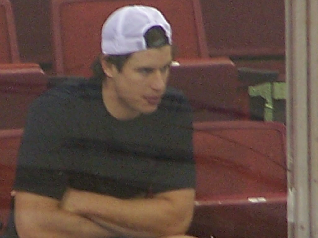 Sidney_Crosby, Pittsburgh Penguins, USA